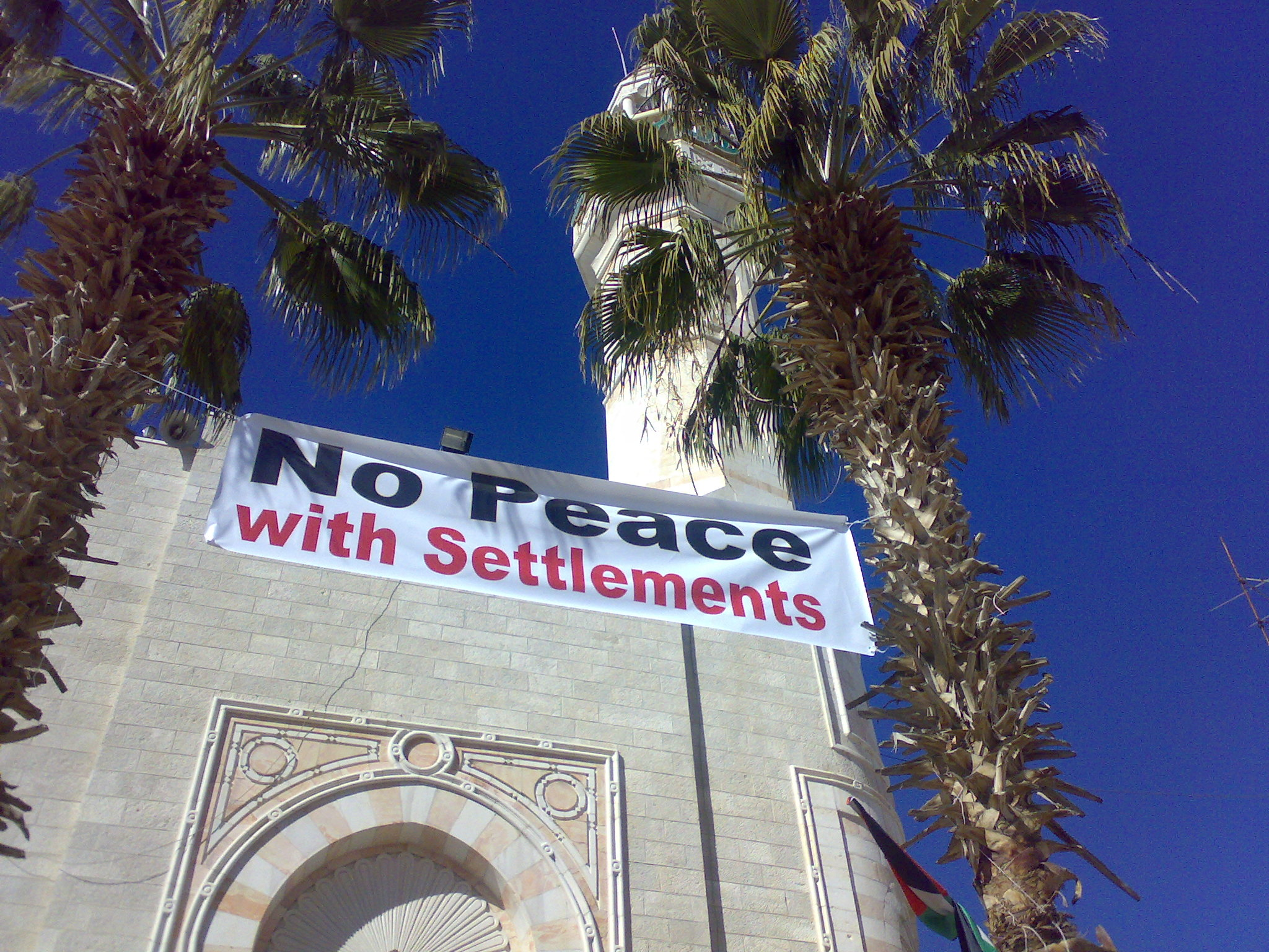 "No Peace With Settlements" protest banner on facade of the Mosque of Omar in Bethlehem